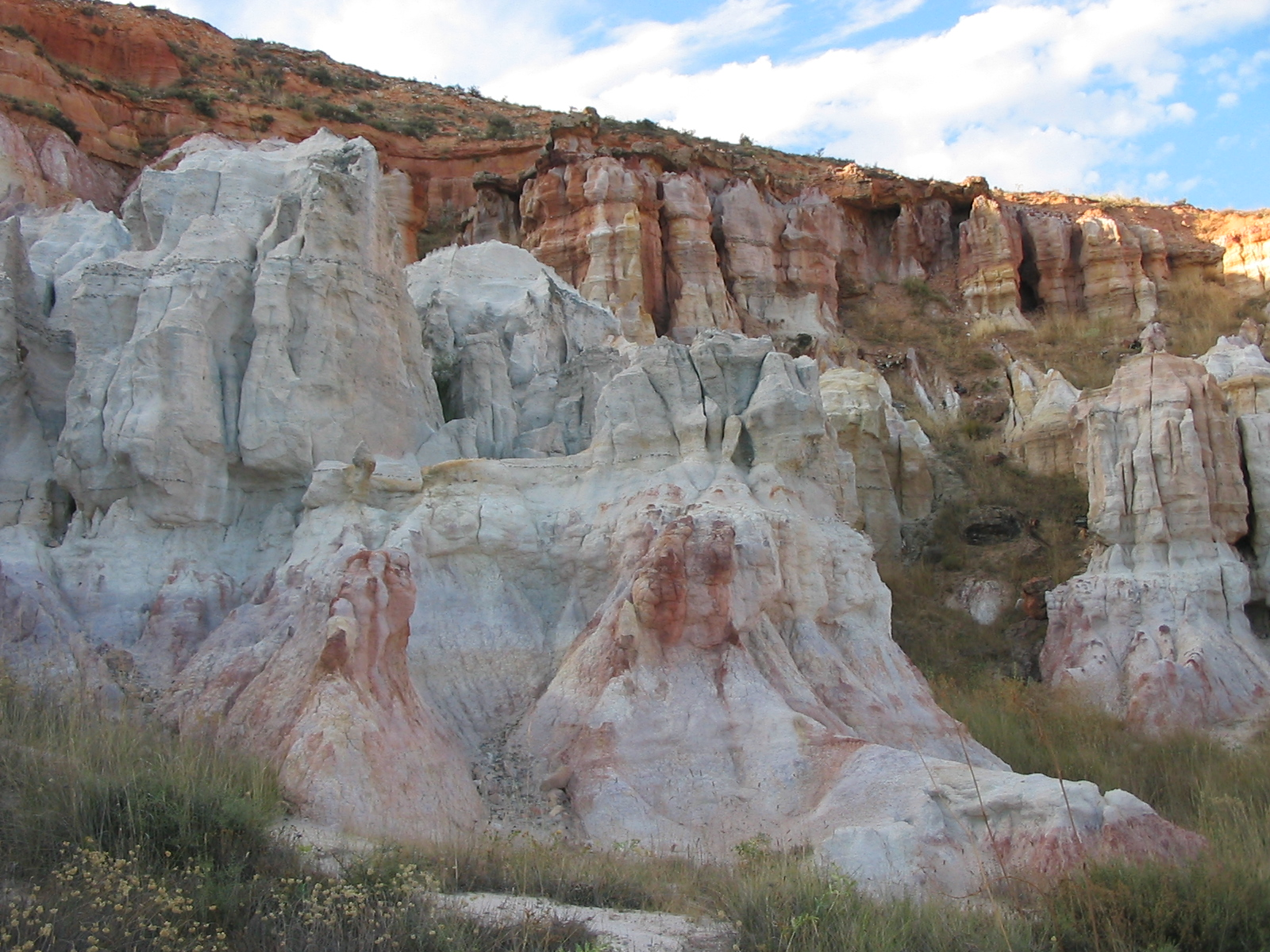 Utrillas Formation, Cretaceous. La Riba de Escalote (Soria, Spain)